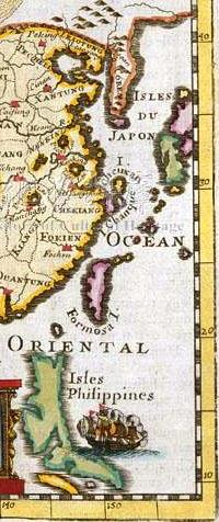 台灣及台灣東北諸島，南部與菲律賓連接的各海島比例顯然都較為誇大。